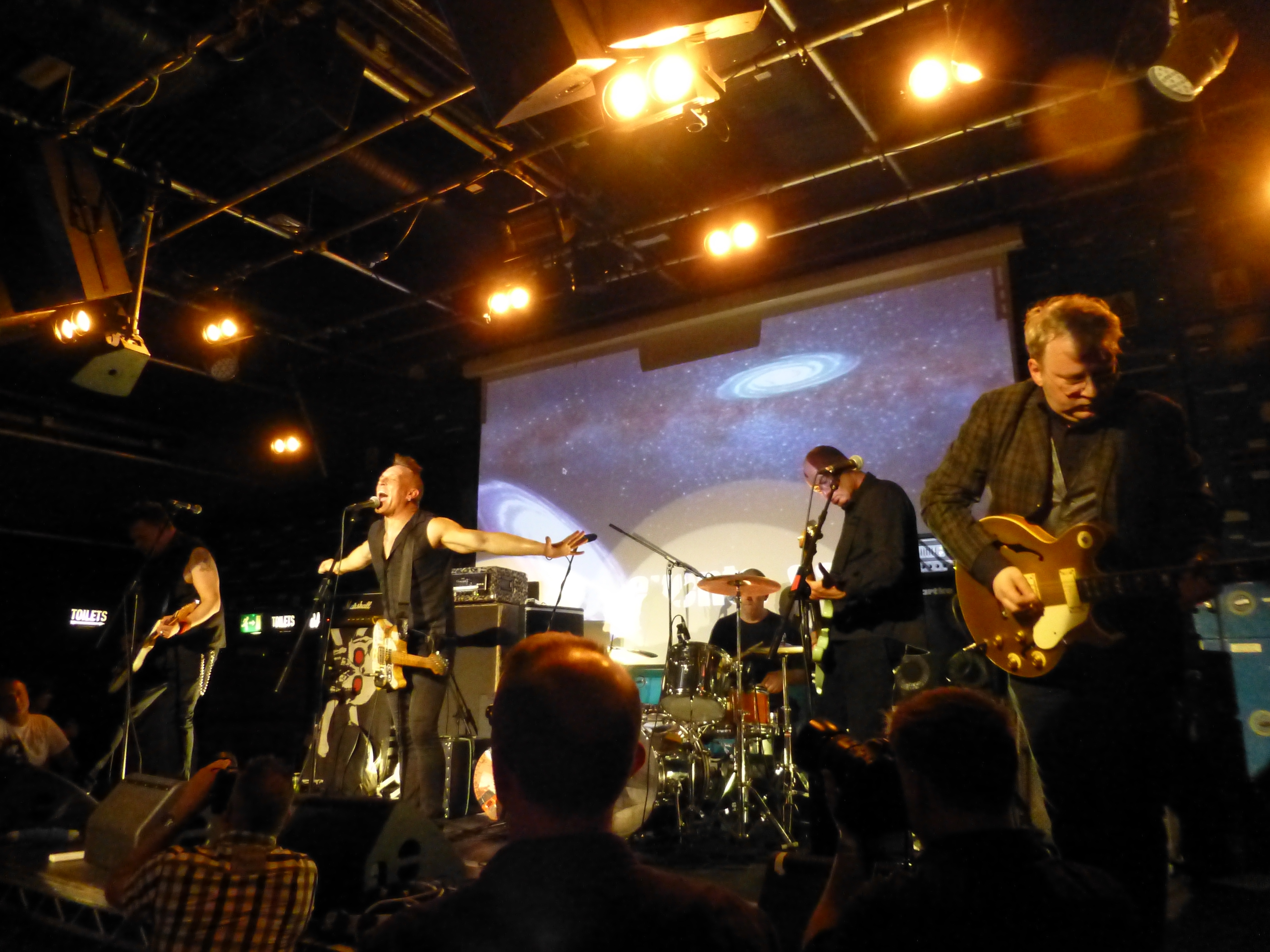 The Membranes @ Gorilla, Manchester 20/7/2013